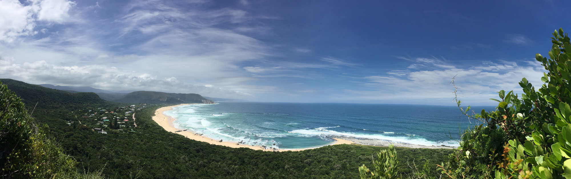 Panoramic view of Nature's Valley, South Africa